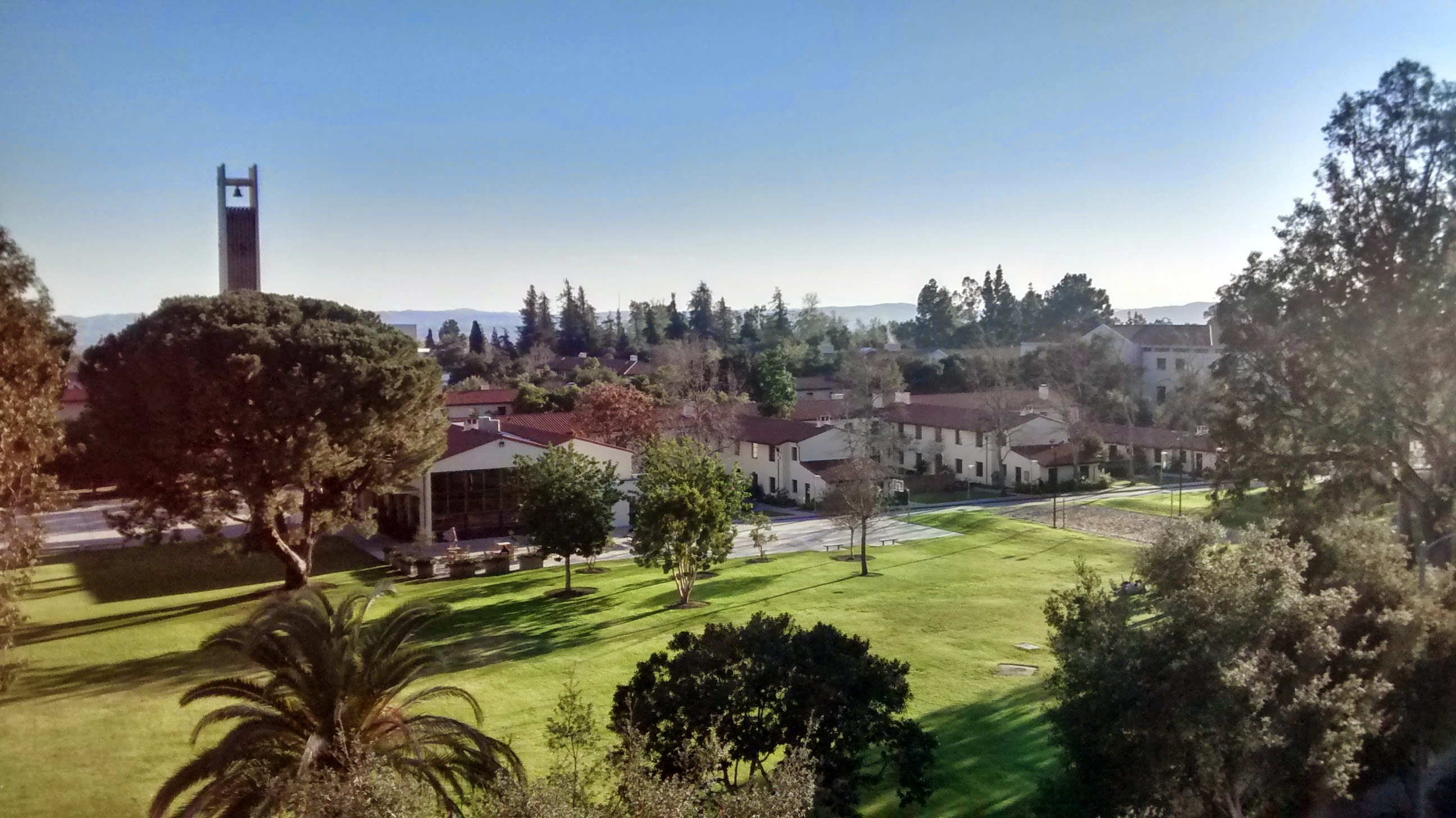 A view of Pomona College's north campus, including Walker Beach, Walker Hall, and the Smith Clock Tower.